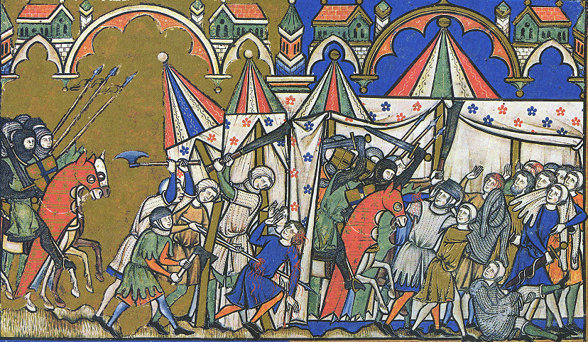 Battle scene of Lot's rescue.